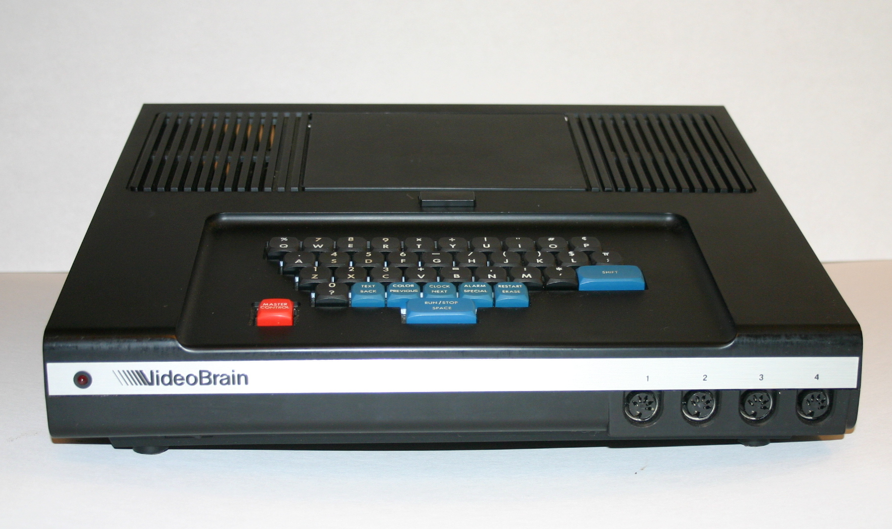 A front view of the VideoBrain computer manufactured by Umtech in 1978. ROM cartridge door is shut. Photo does not include joysticks, AC adapter, or any cartridges or packaging.